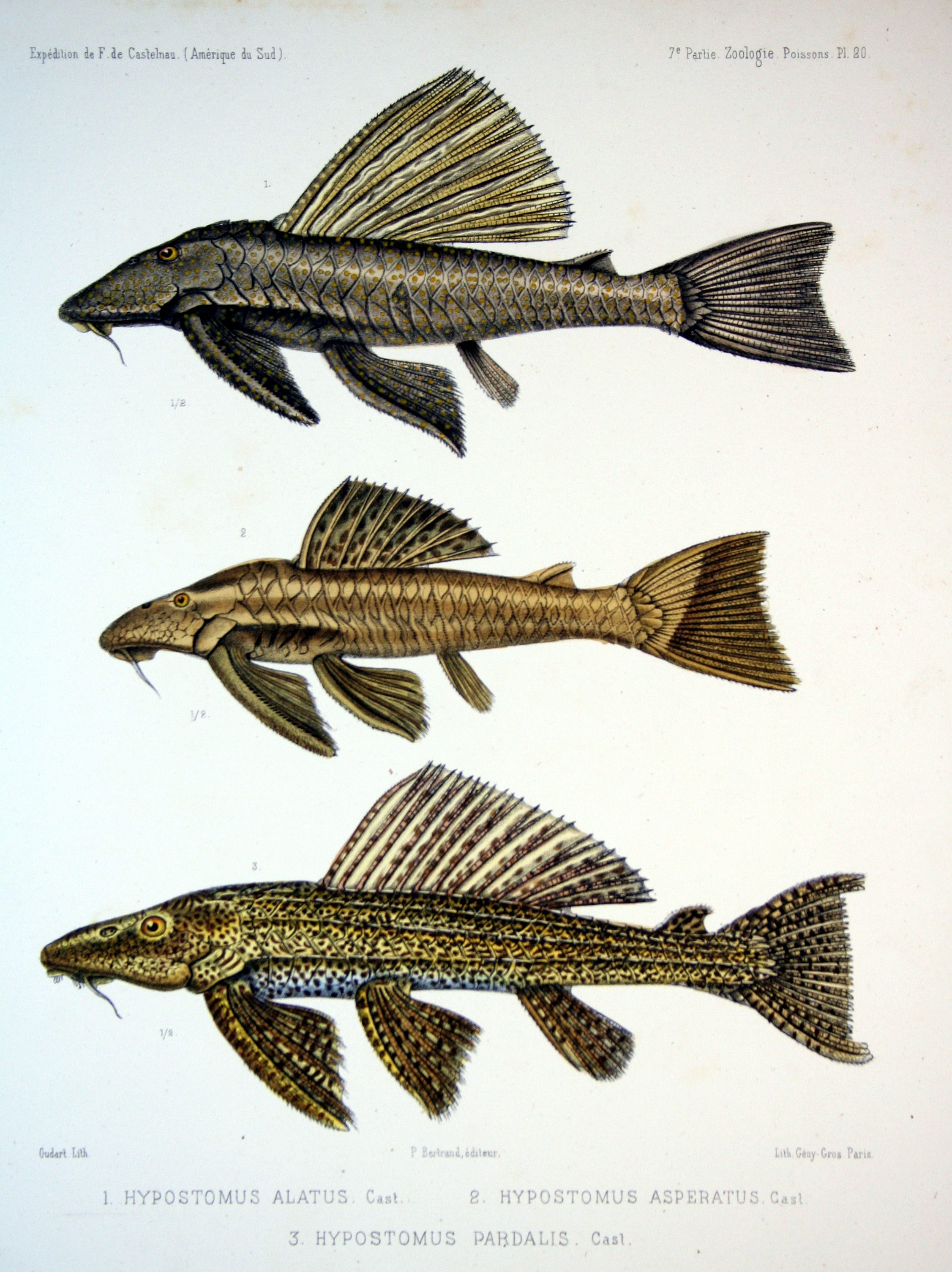 From top to bottom: Hypostomus alatus Hypostomus asperatus Hypostomus pardalis = Pterygoplichthys pardalis